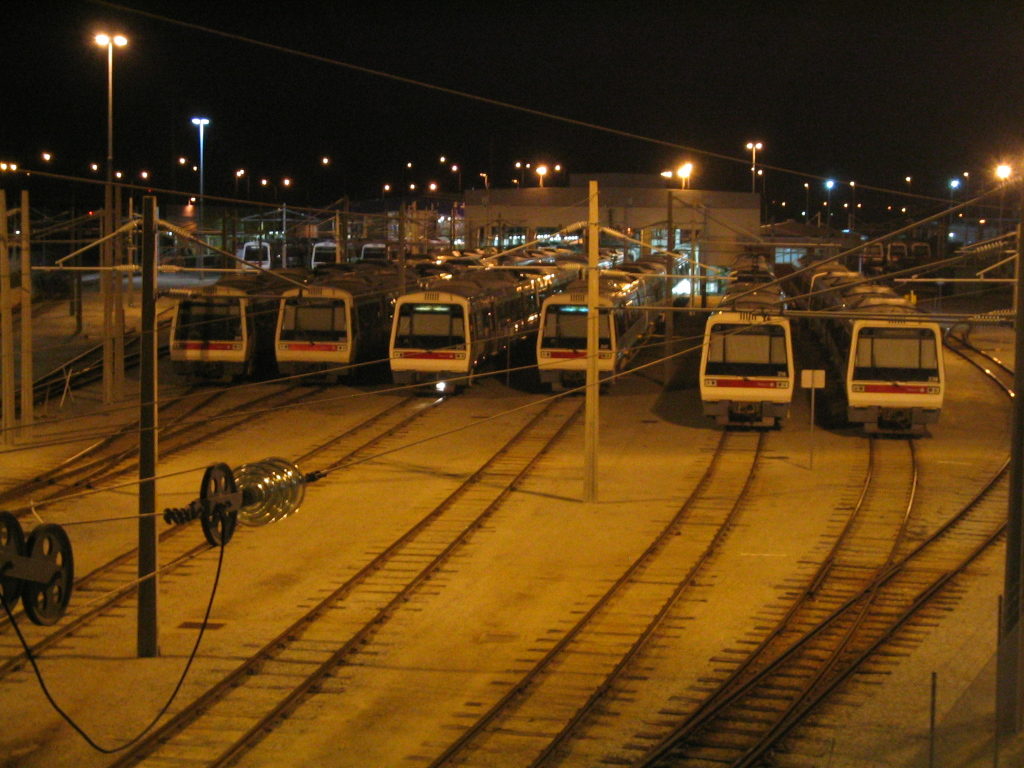 Transperth Claisebrook Railway Depot at Night mostly stores A set train sets